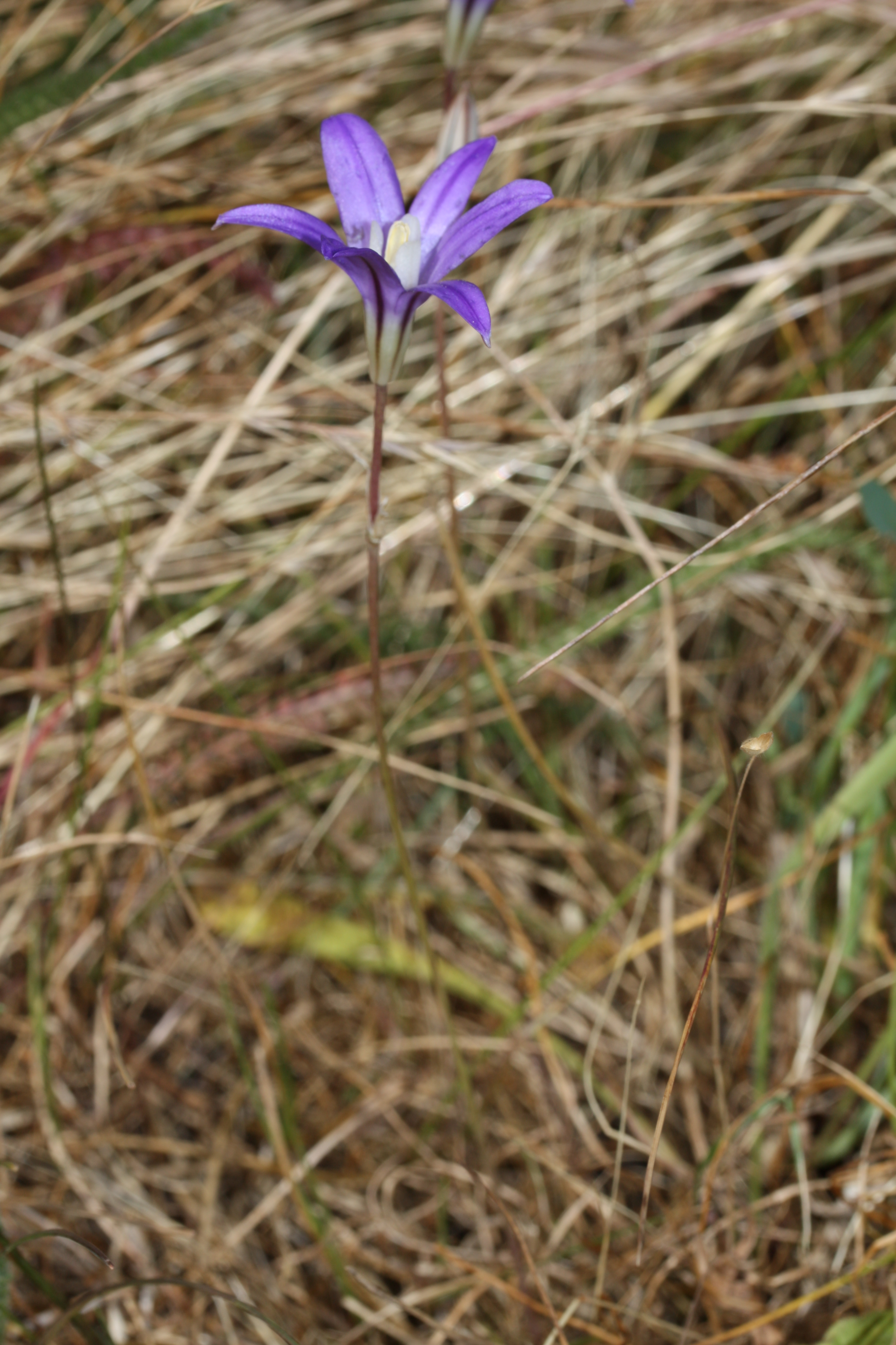 Crown Brodiaea, Harvest Brodiaea, Bluedick Brodiaea